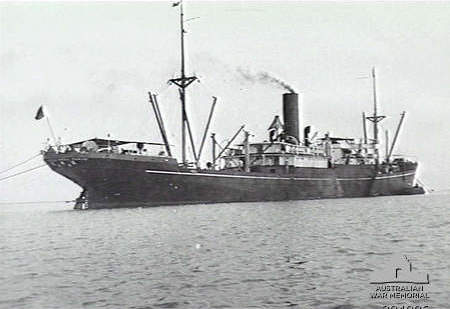 Japanese cargo ship Takaoka Maru (Nippon_Yusen, 7006GT)